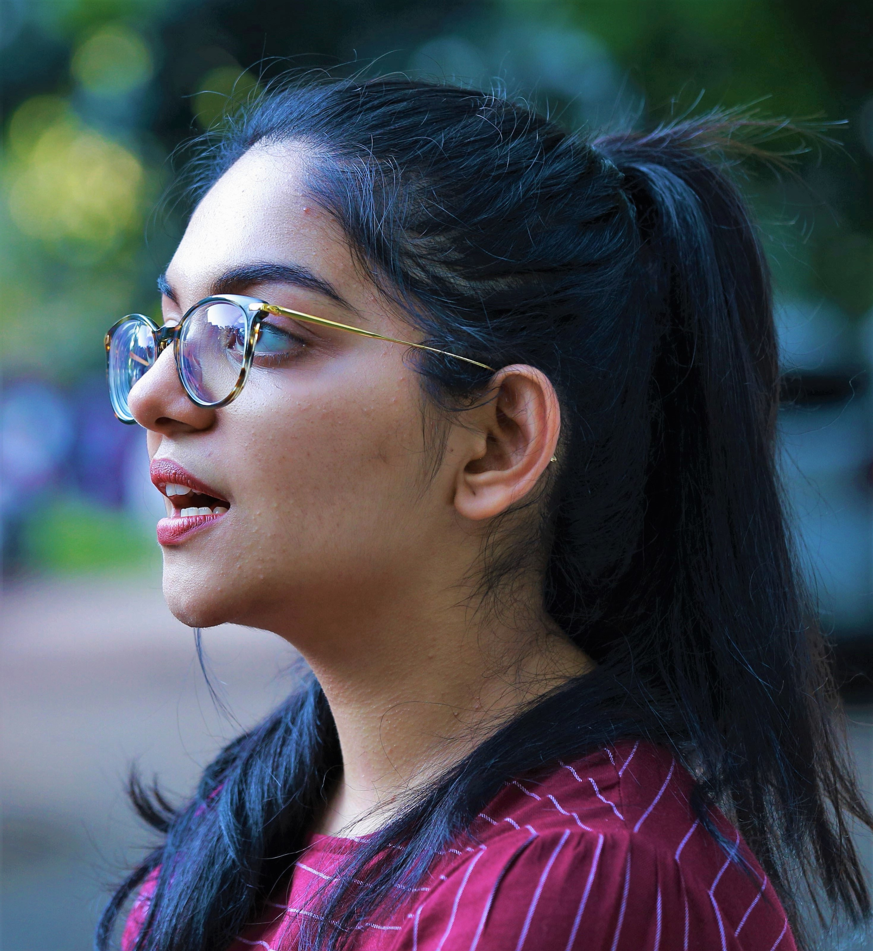 Ahaana Krishna